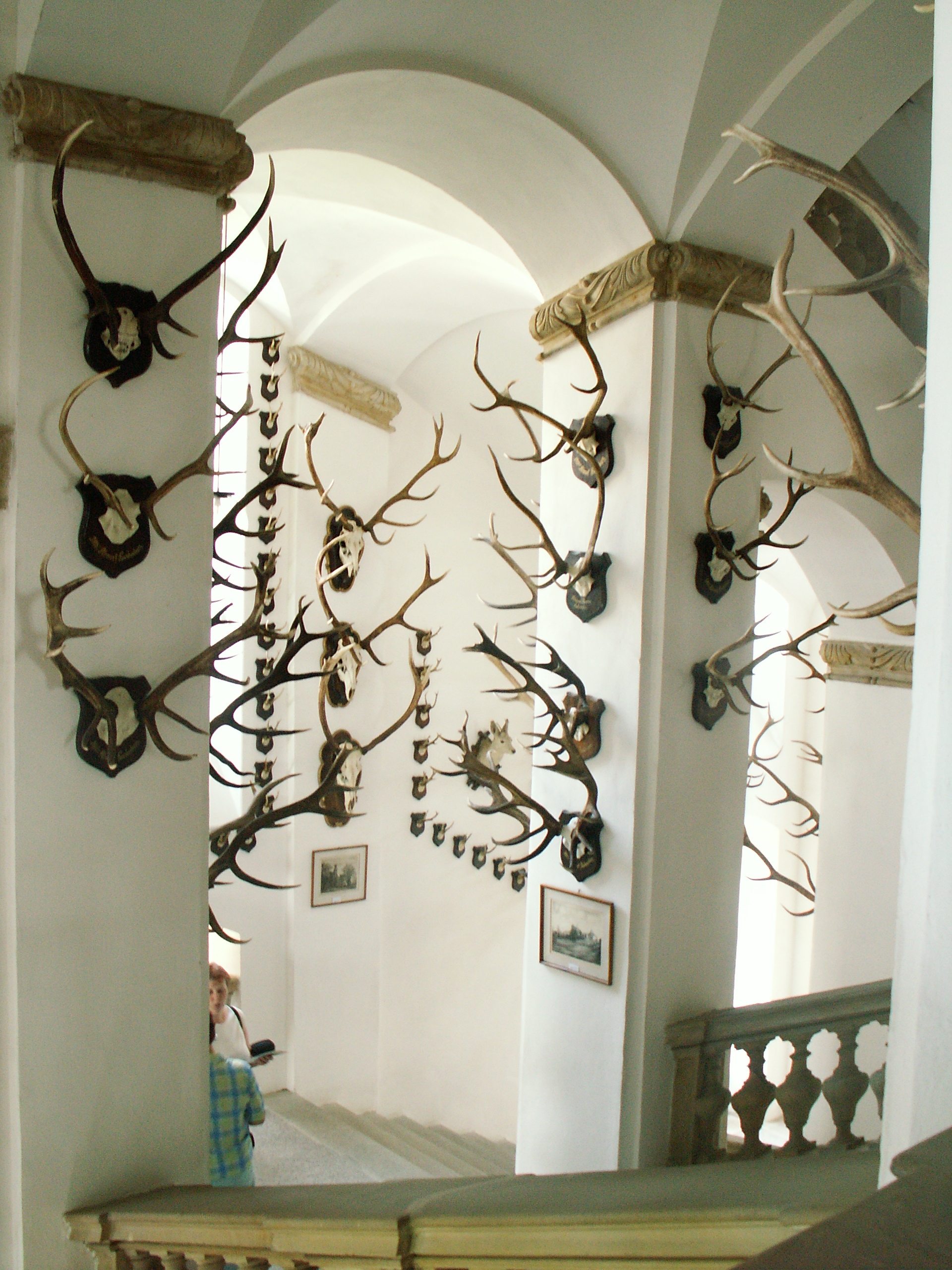 Hunting trophies in Úsov Château, the Czech Republic. The château contains a large collection of trophies acquired by Liechtensteins, who owned it from 1597 to 1945, in their hunting expeditions in Europe, Africa and Asia.